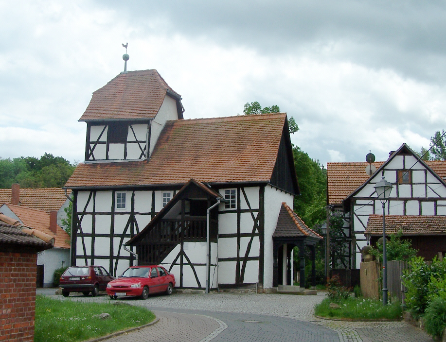 Wartha, Kirche